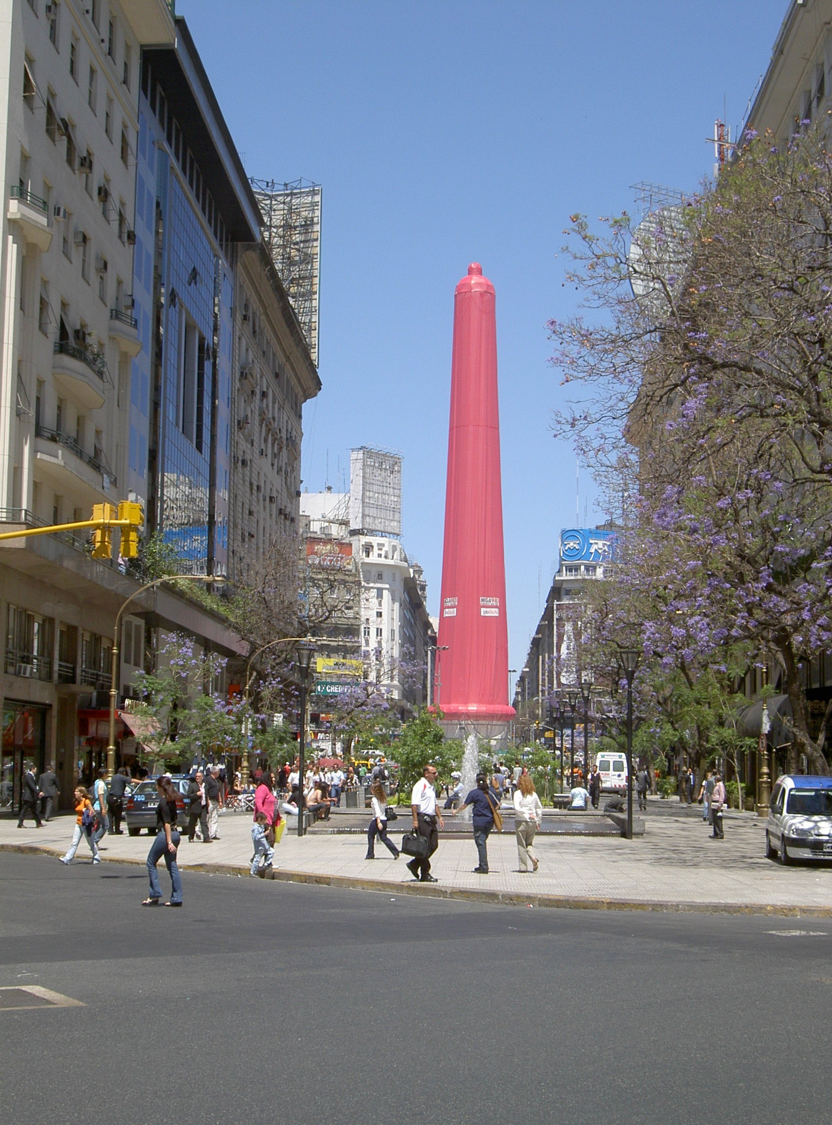 A 67 m long "condom" on the Obelisco (obelisk) in downtown Buenos Aires, to commemorate the international AIDS awareness day.